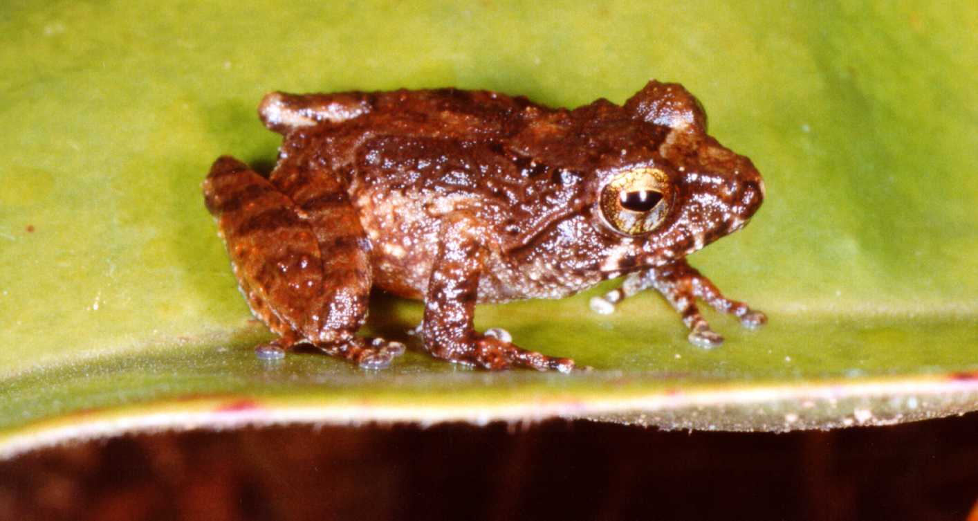 MT Abdullah. Tabdulla 10:02, 15 October 2006 (UTC)